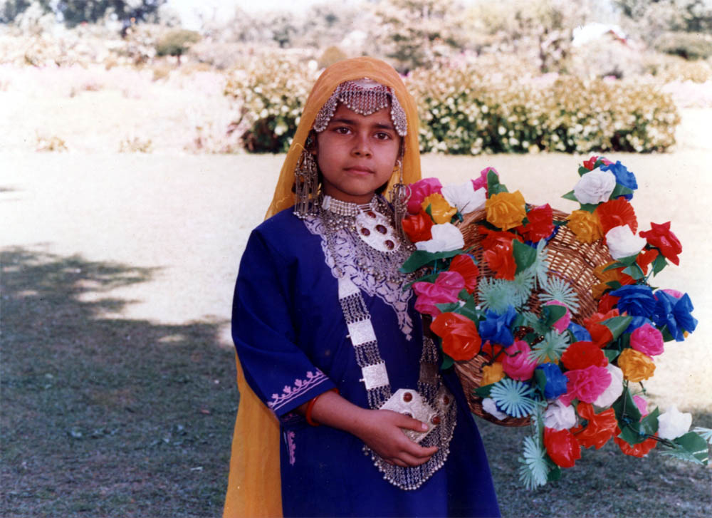 A girl from Bihar in Kashmiri attire. Photo taken by me in Srinagar.